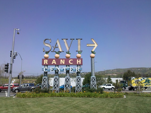 This is a sign on Yorba Linda Blvd. / Weir Canyon Rd. just north of the 91 freeway that directs traffic into the Yorba Linda side of Savi Ranch.